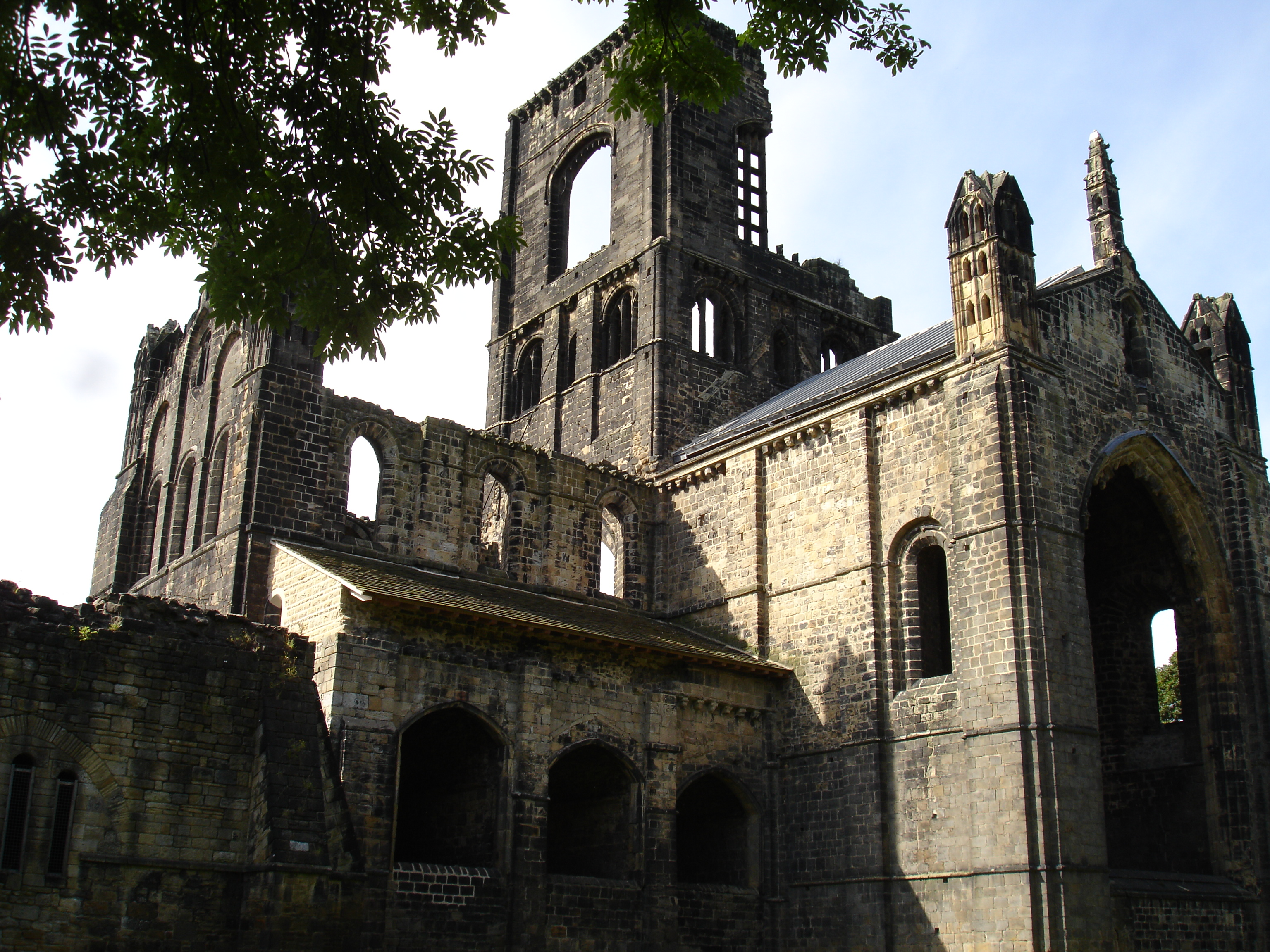 Photograph of Kirkstall Abbey, Leeds, West Yorkshire, England